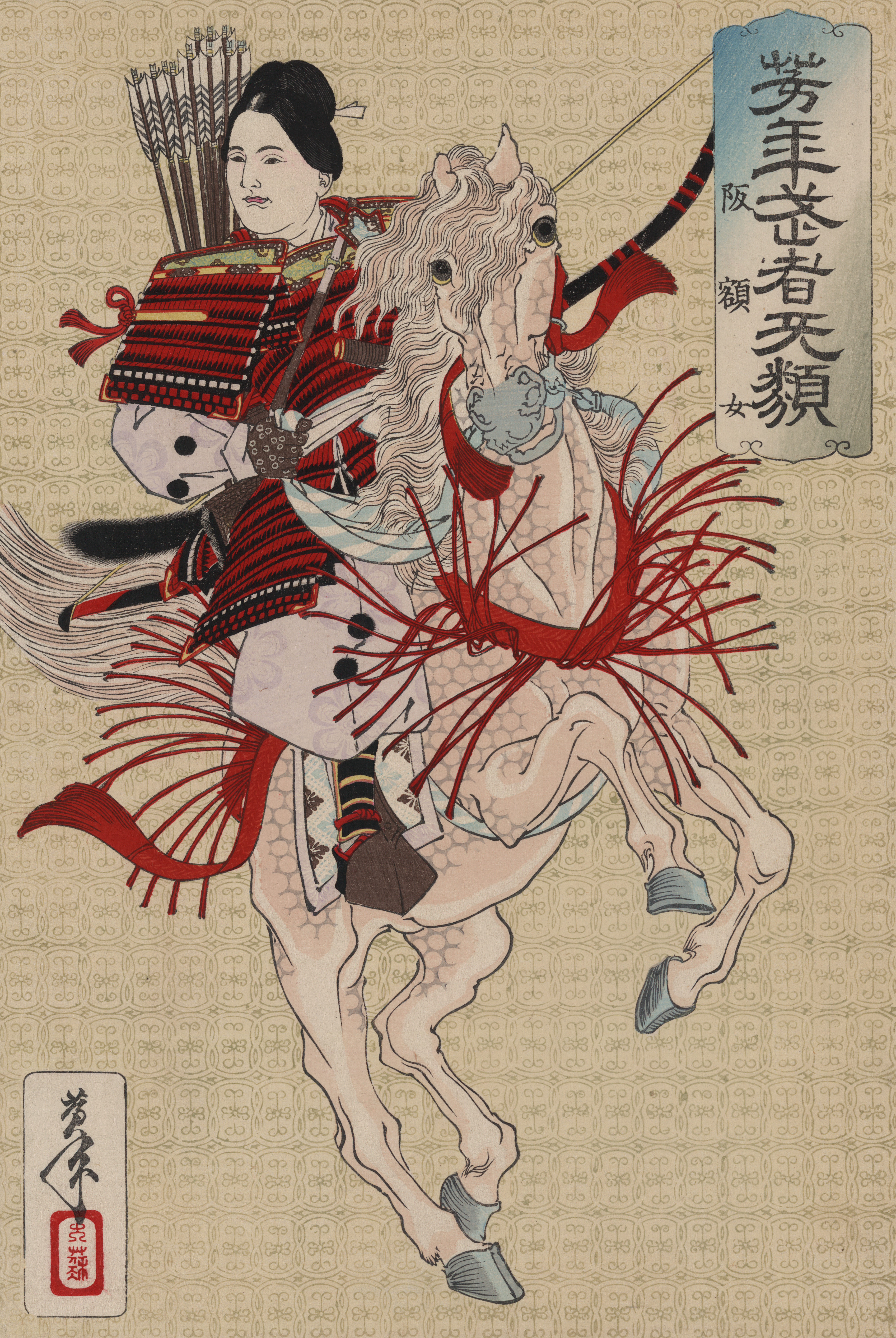 "Hangakujo". The female warrior samurai Hangaku Gozen by Yoshitoshi (1839-1892). From the series "Yoshitoshi mushaburui: A series of warriors by Yoshitoshi." Published in "The Floating world of Ukiyo-e," essays by Sandy Kita, New York, 2001, no. 72, p. 135. Exhibited at "The Floating world of Ukiyo-e: shadows, dreams and substances," organized by the Library of Congress, 2001. Colour woodcut print, 37 x 25.3 cm. 月岡芳年 作「芳年武者无類 阪額女」。女武将の板額御前は弓の名手として知られた。